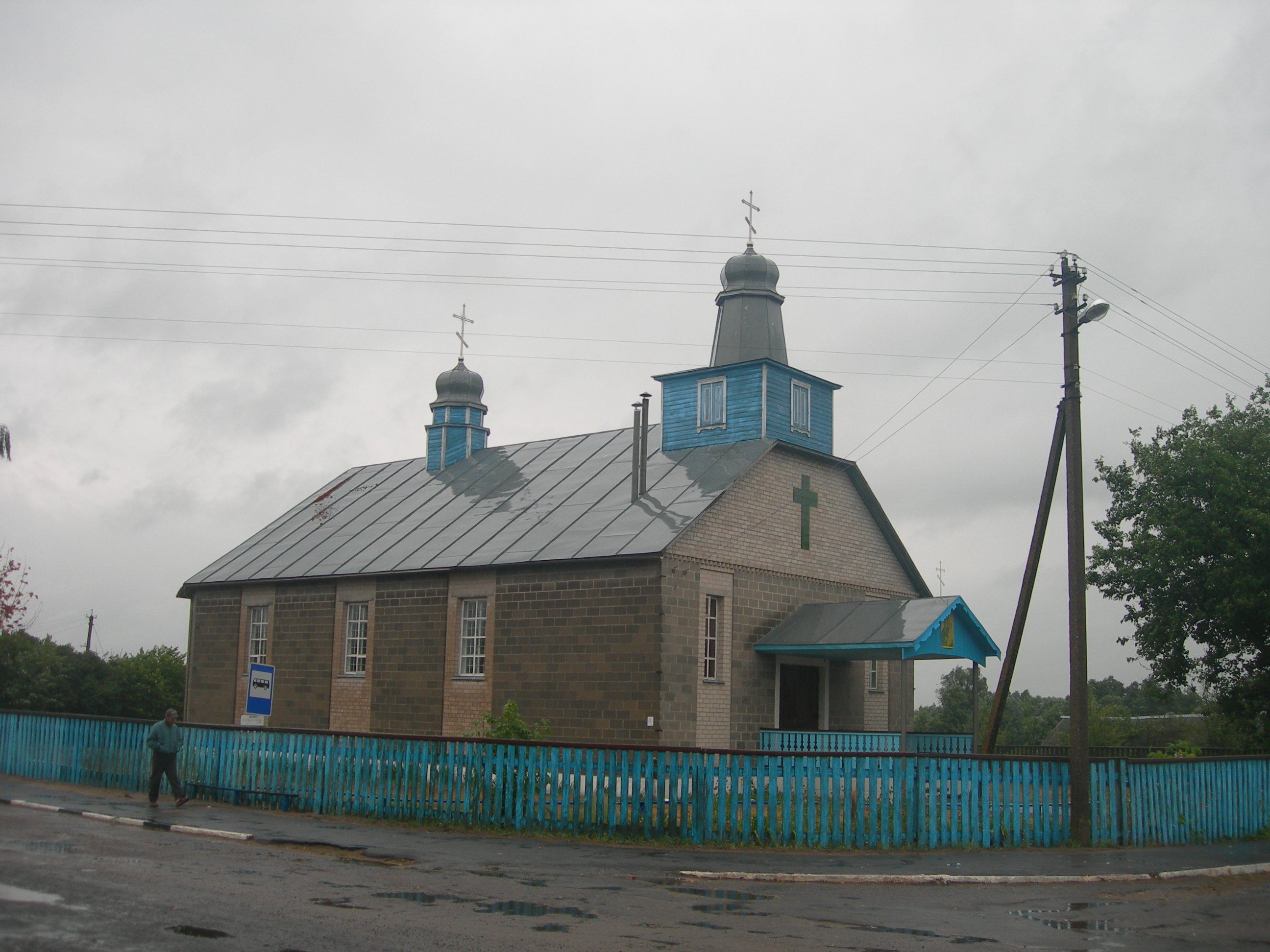 Zdzitava, Belarus - local church.